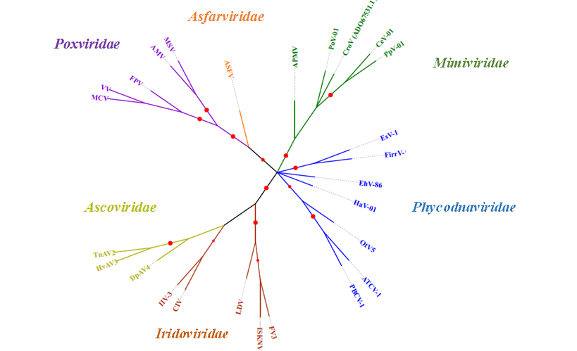 Figure. Molecular Phylogenetic analysis of NCLDV members by Maximum Likelihood method The evolutionary history was inferred by using the Maximum Likelihood method based on the JTT matrix-based model. The bootstrap consensus tree inferred from 100 replicates is taken to represent the evolutionary history of the taxa analyzed . Branches corresponding to partitions reproduced in less than 50% bootstrap replicates are collapsed. The percentage of replicate trees in which the associated taxa clustered together in the bootstrap test (100 replicates) are shown by the size of red nodes on each branch. Initial tree(s) for the heuristic search were obtained automatically by applying Neighbor-Join and BioNJ algorithms to a matrix of pairwise distances estimated using a JTT model, and then selecting the topology with superior log likelihood value. The analysis involved 26 amino acid sequences. There were a total of 2599 positions in the final dataset. Evolutionary analyses were conducted in MEGA7.